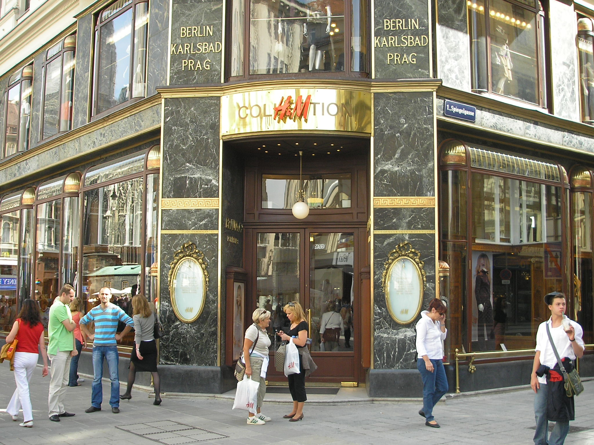 Image of the store E. Braun & Co. at the Graben street in Vienna's first district. Former purveyor to the imperial and royal court (k.u.k. Hoflieferant).